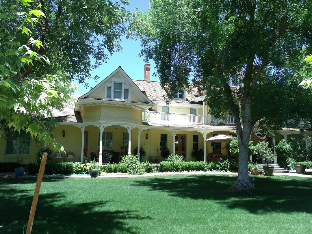 The historic William J. Murphy House was built in 1895 and is located at 7514 N. Central Ave. in Phoenix, Arizona. William J. Murphy created the Arizona Improvement Company in 1887 and bought land in areas that would eventually become the towns of Peoria and Glendale. The house is listed as historic by the Phoenix Historic Property Register.